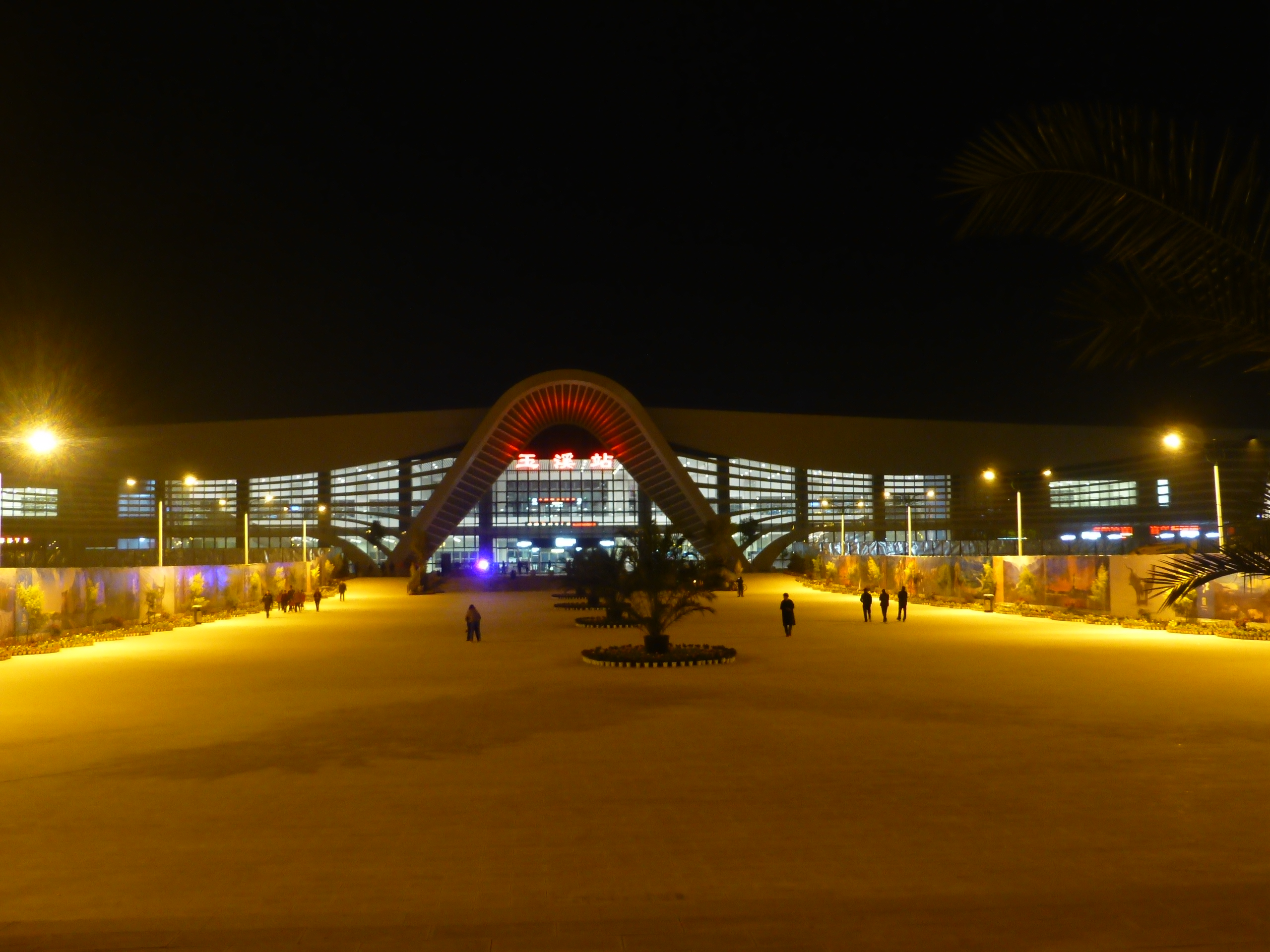 The new Yuxi Railway Station, on its first day of operation.